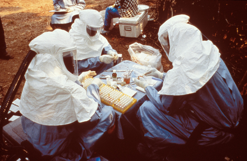 This 1995 photograph shows scientist with personal protective equipment (PPE) testing samples from animals collected in Zaire for the Ebola virus.